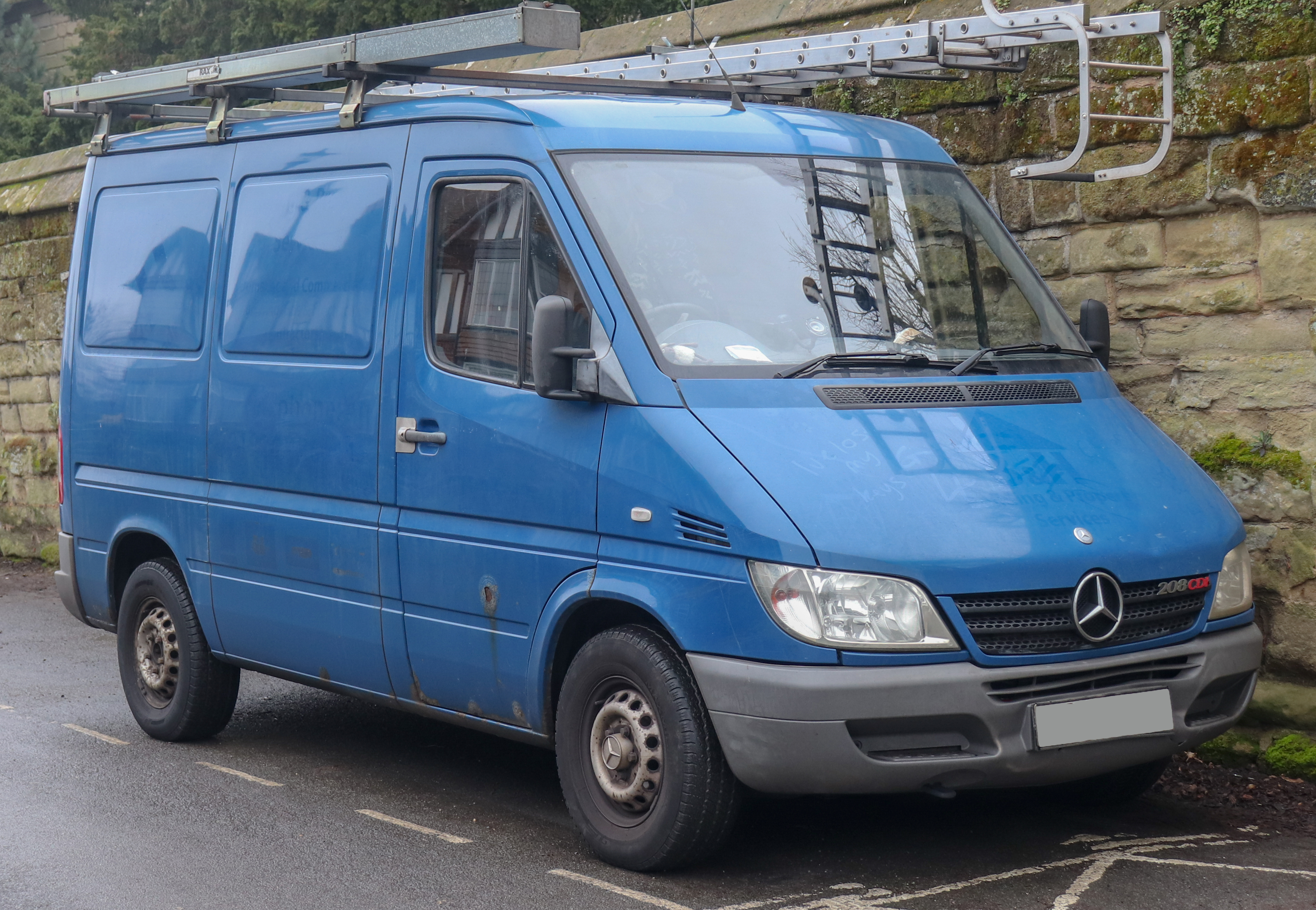 2004 Mercedes-Benz Sprinter 208 CDi SWB 2.2 Front Taken in Warwick